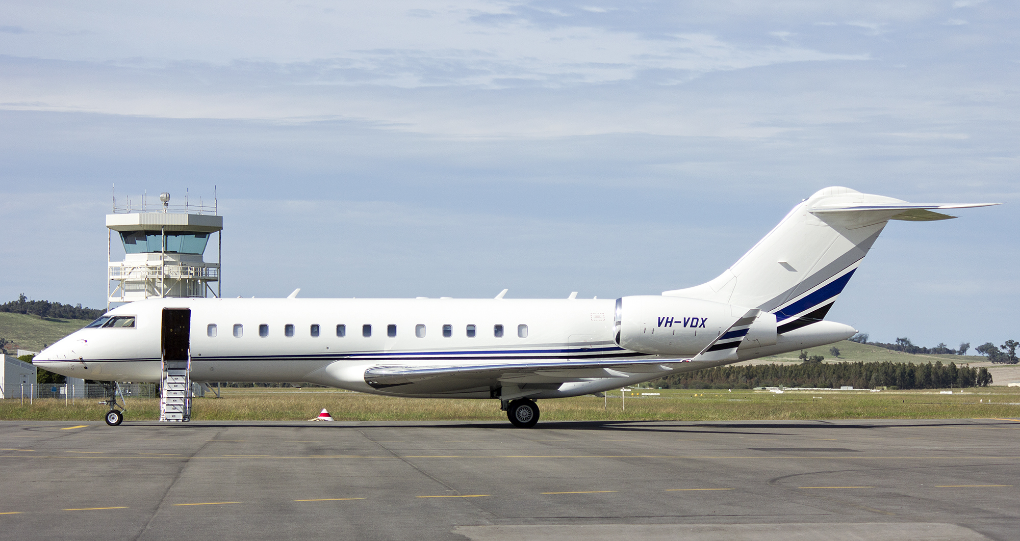 Pratt Aviation (VH-VDX) Bombardier BD-700-1A10 Global Express parked on the tarmac at Wagga Wagga Airport.